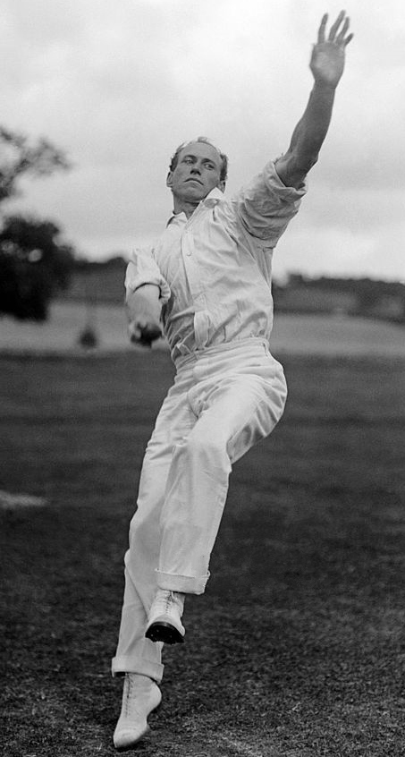 John Barton "Bart" King, cricketer